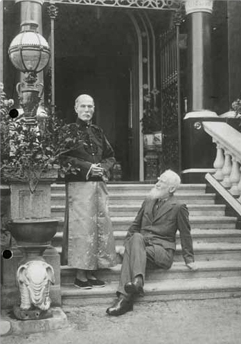 Sir Robert Hotung with Bernard Shaw in Hongkong (1933)